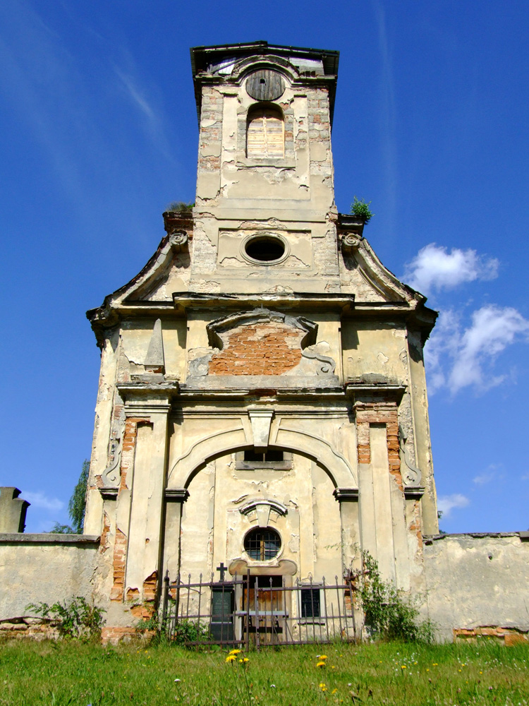 Church, Brenna, Czech Republic